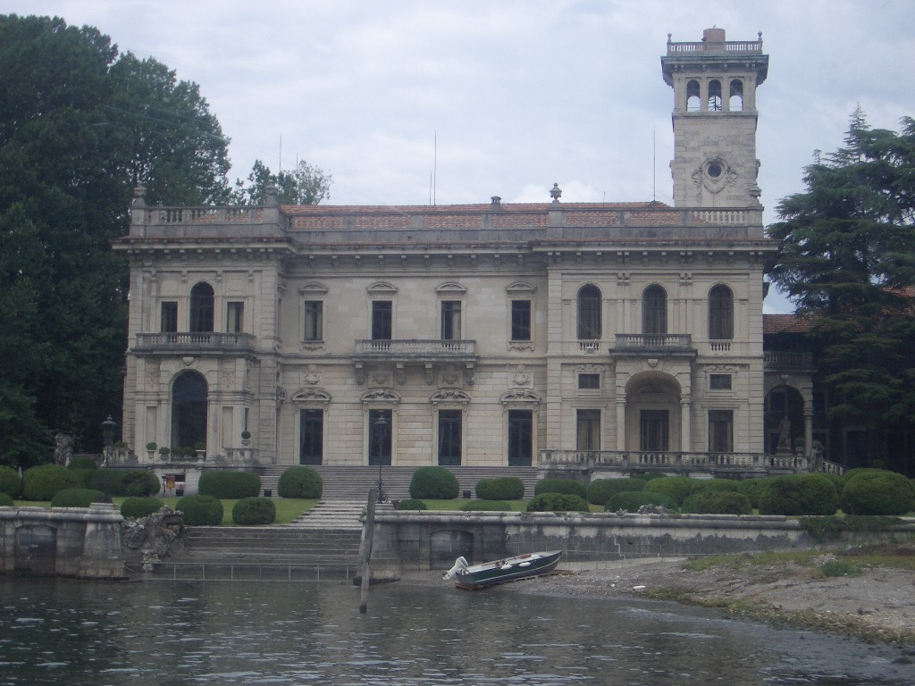 The Villa Erba on Lake Como, Italy